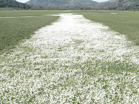 Bailon river, in the Poldge of La Nava, Sierra de Cabra, Cordoba, Spain.